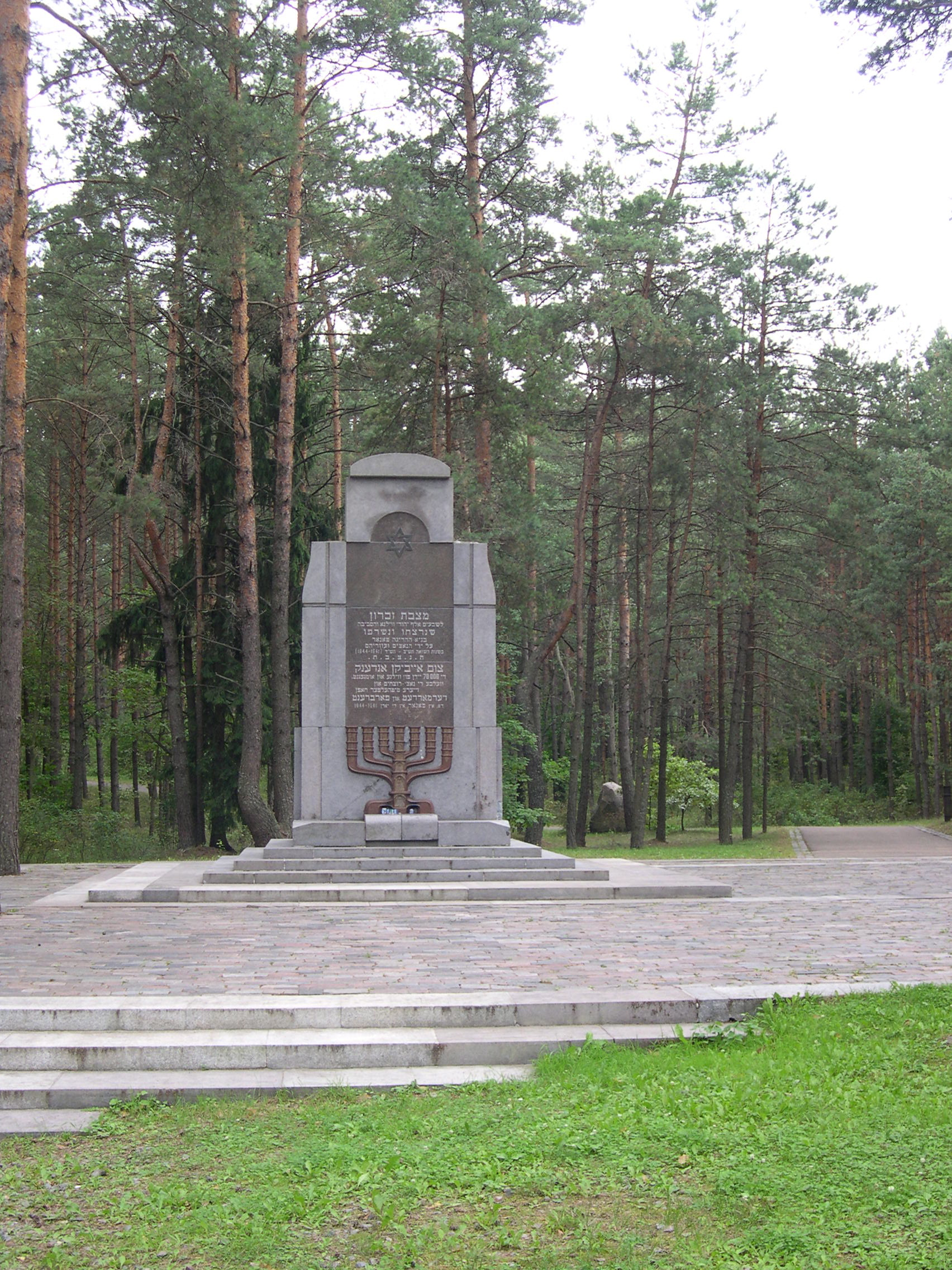 A monument in Paneriai for the victims of the Holocaust